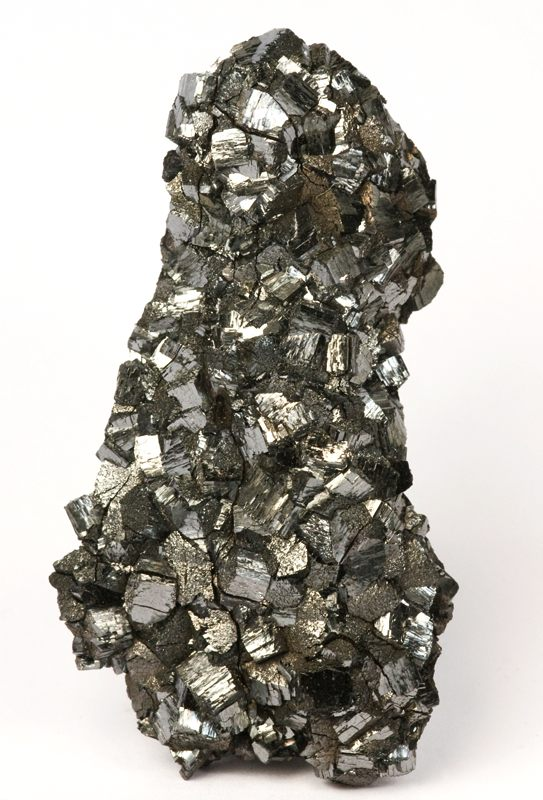 Ramsdellite Locality: Mistake Mine (Box Canyon deposits), Sam Powell Peak, Box Canyon District, Yavapai County, Arizona, USA (Locality at ) Size: small cabinet, 6.0 x 3.1 x 1.1 cm Ramsdellite On matrix is a plate of intergrown, short prismatic, splendent black crystals of ramsdellite, to .5 cm across.